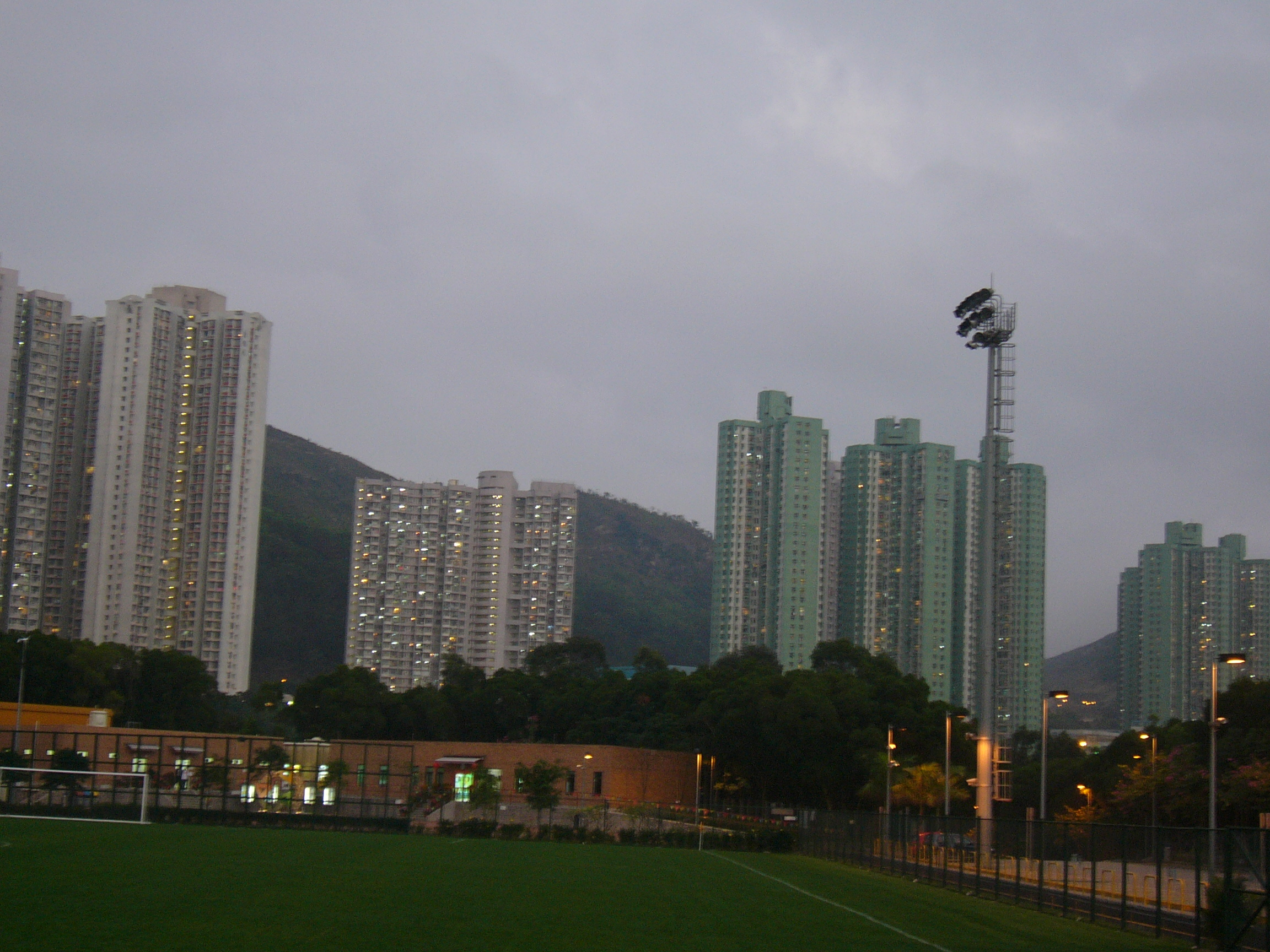 Cityscape of Lam Tin, evening view